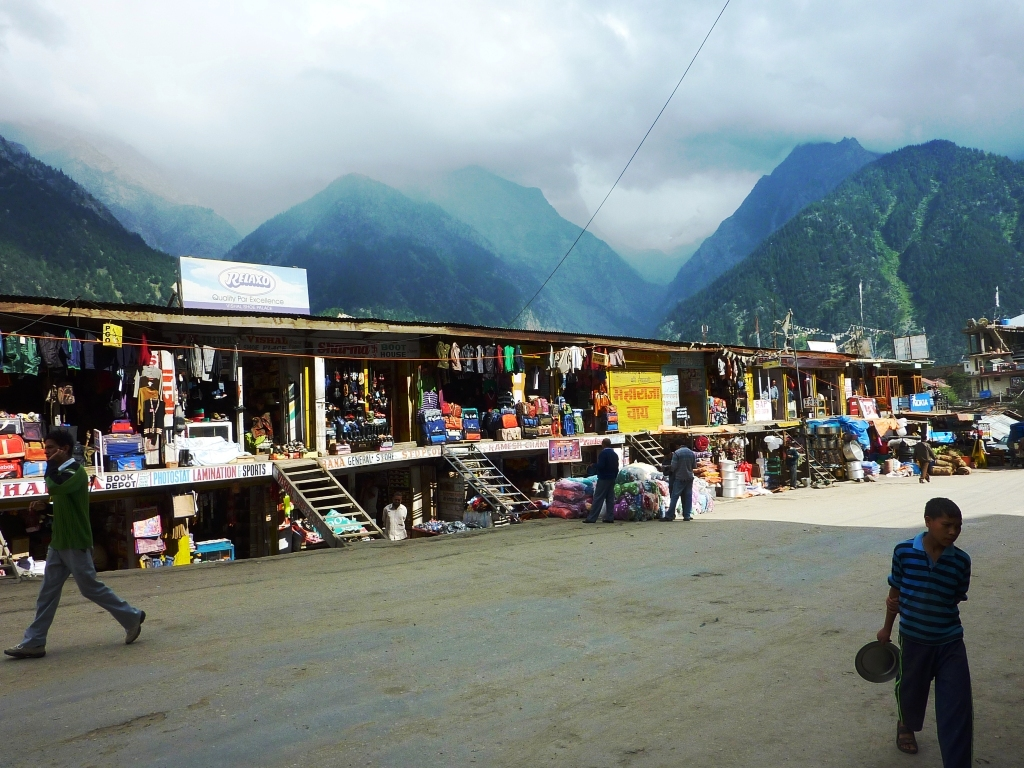 I took this photo of the main street of Reckong peo showing the buildings built over the steep drop-off on the other side of the ridge